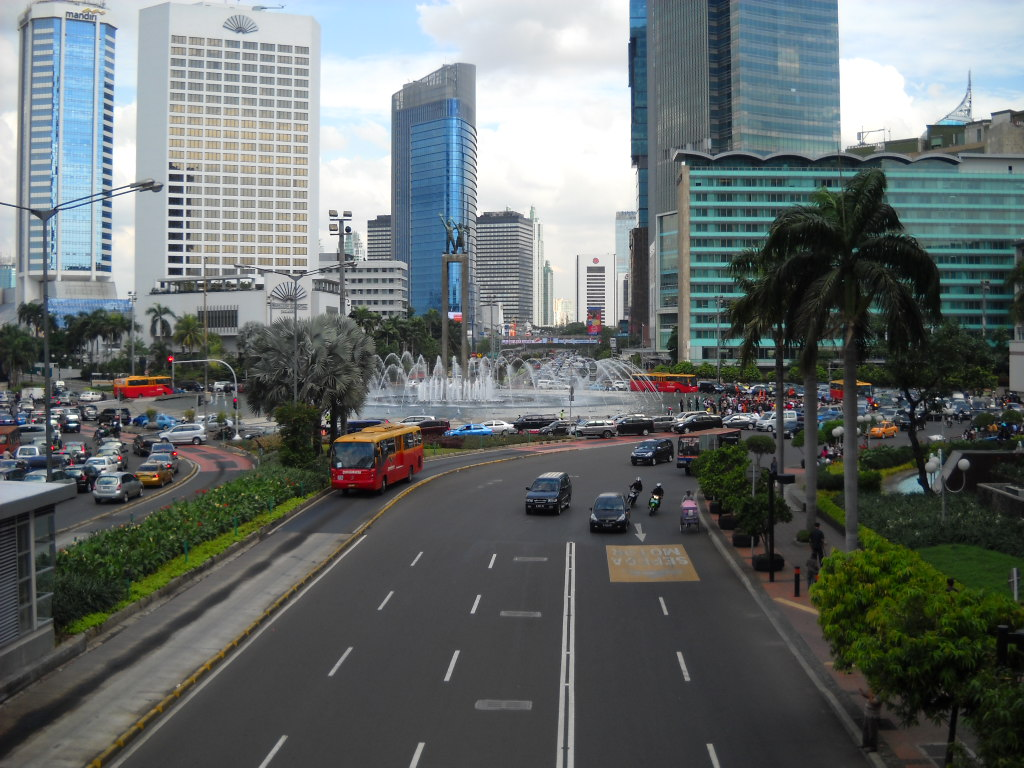 Bundaran Hotel Indonesia, Jakarta.